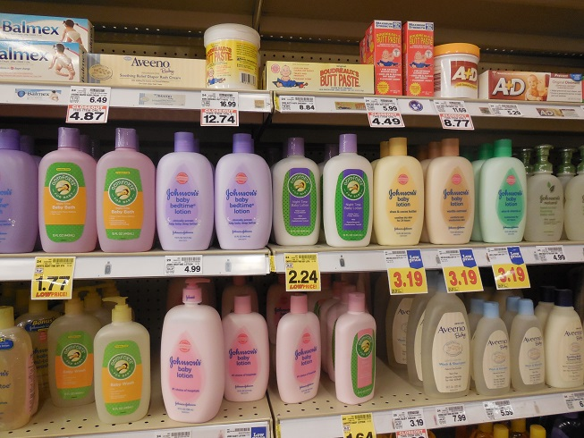 Baby Bath Products on Kroger Shelves